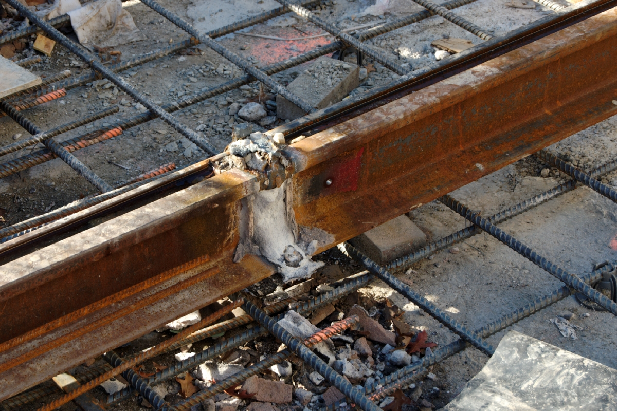 A rough join between two tram tracks shortly after molten metal was poured into a mold to create the join.